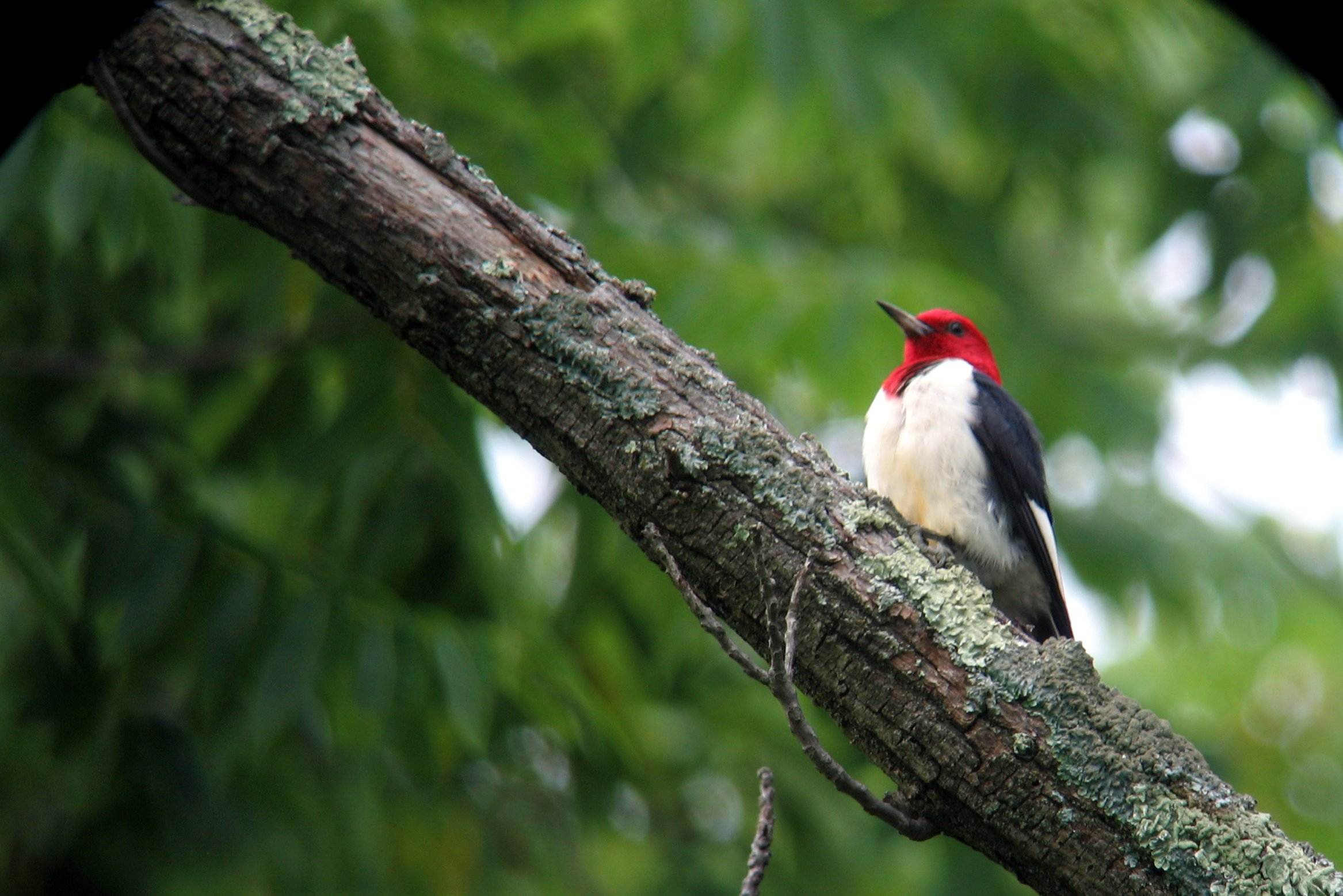 Red Headed Woodpecker @sky meadows. Picture was taken using Canon A95 through a Kowa Prominar Spotting Scope at 60x.